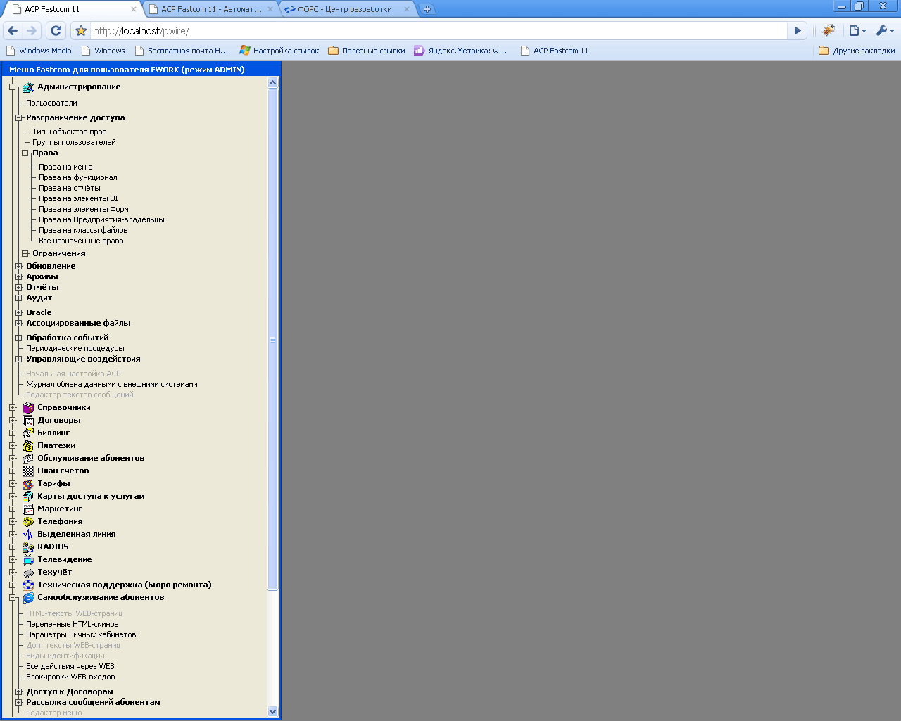 Main menu of Fastcom billing system